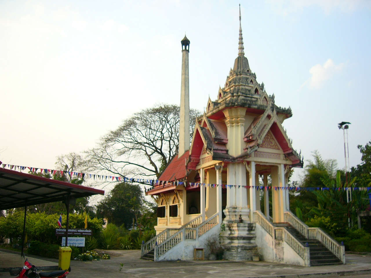 Cremation at Wat Nawa, Nakhon Phanom province, Thailand